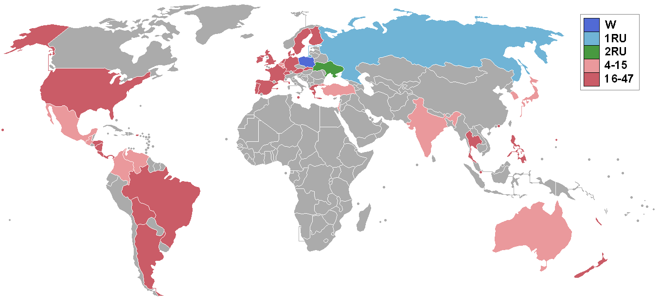 ms international 1993 results map